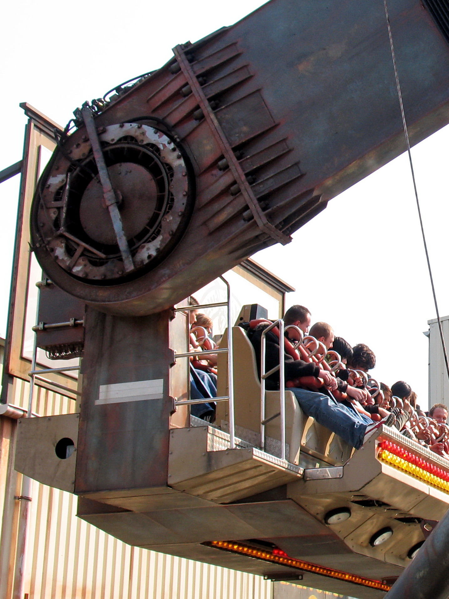 Brakes at Top Spin NYC Transformer in Movie Park Germany